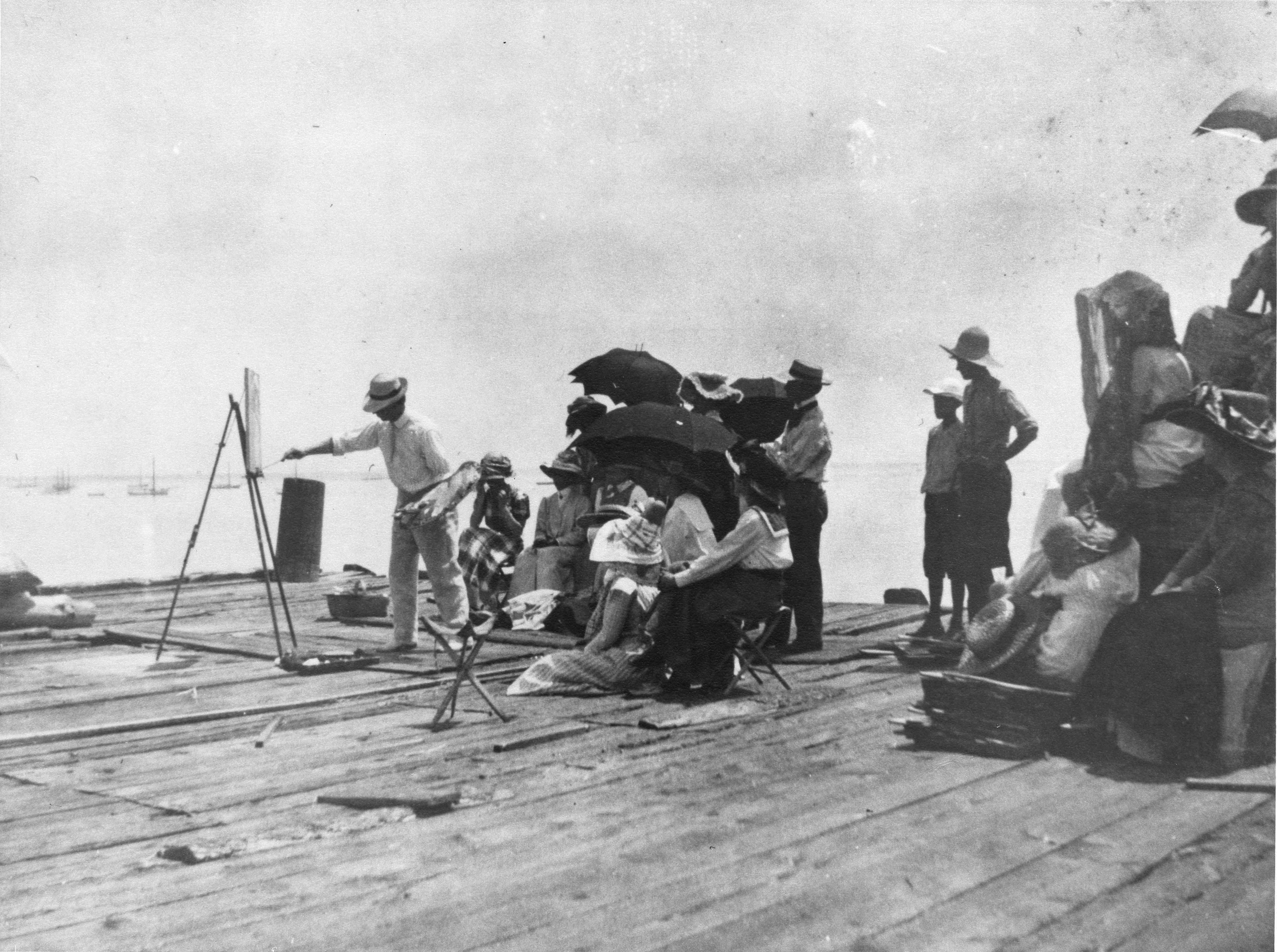 Hawthorne sketching with his class looking on